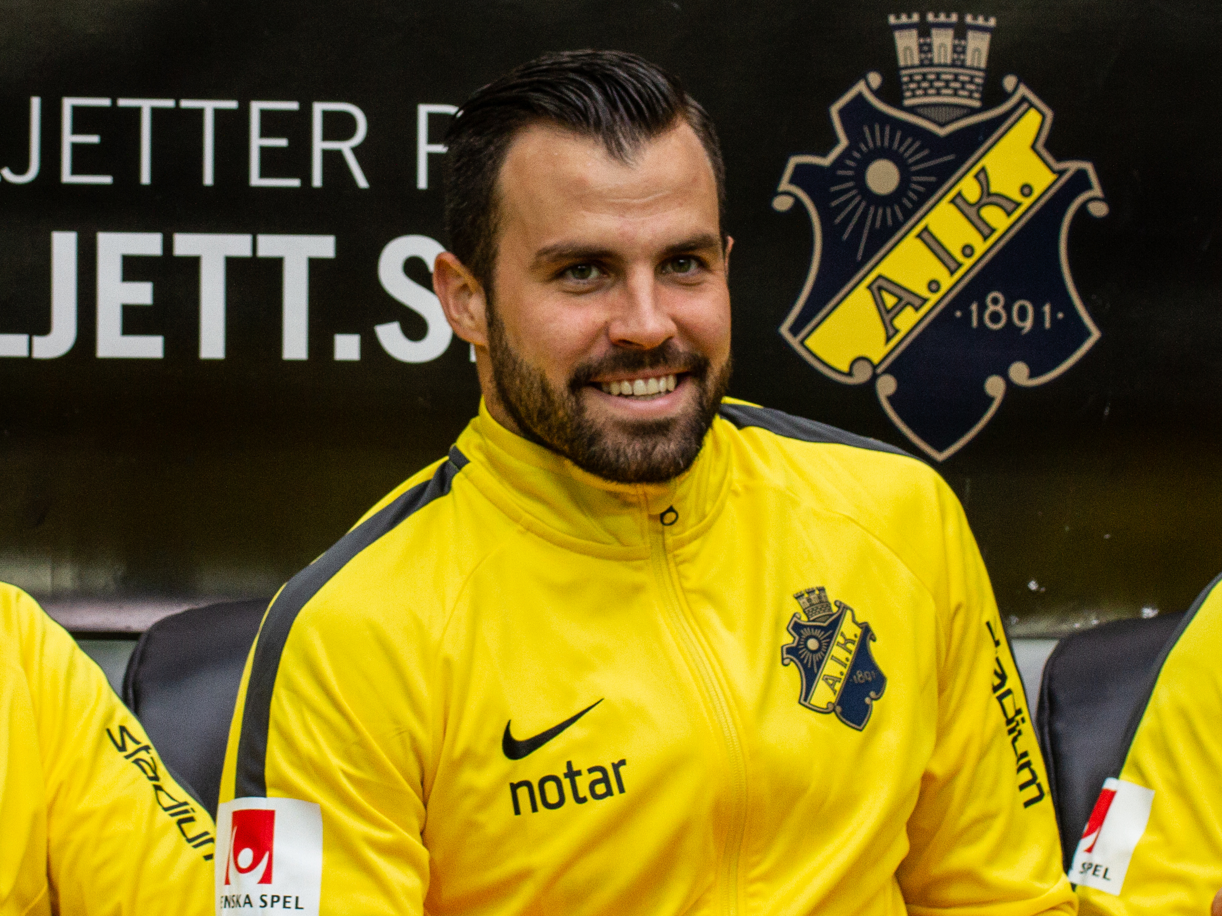 Budimir Janošević in August 2018